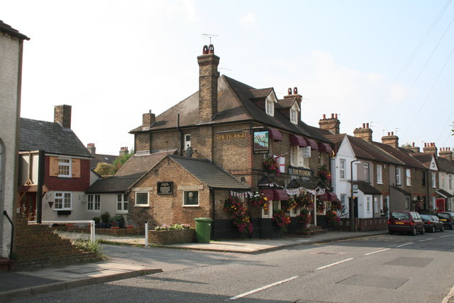 The Plough, Wilmington, Kent. This inviting local has the advantage of being the only pub in the village.